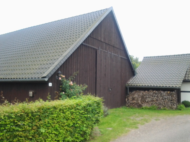 Barn in Oeldorf (Kürten) naer Cologne, 20 August 2013. Photograph by Gustavo Oliveira Alfaix Assis.